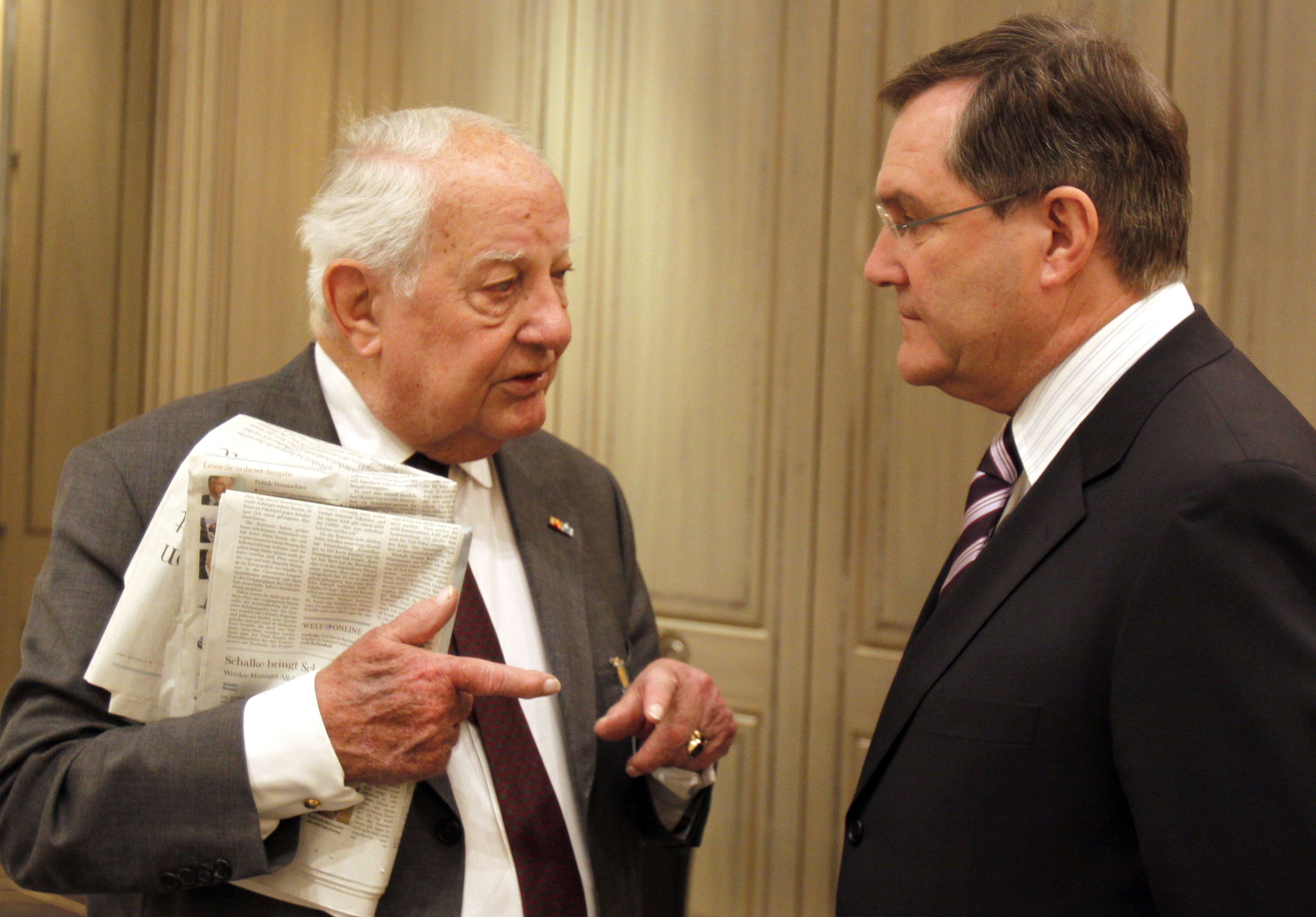 45th Munich Security Conference 2009: Ewald von Kleist (le) and the Federal Minister of Defense, Germany, Dr. Franz Josef Jung (ri) in Conversation.